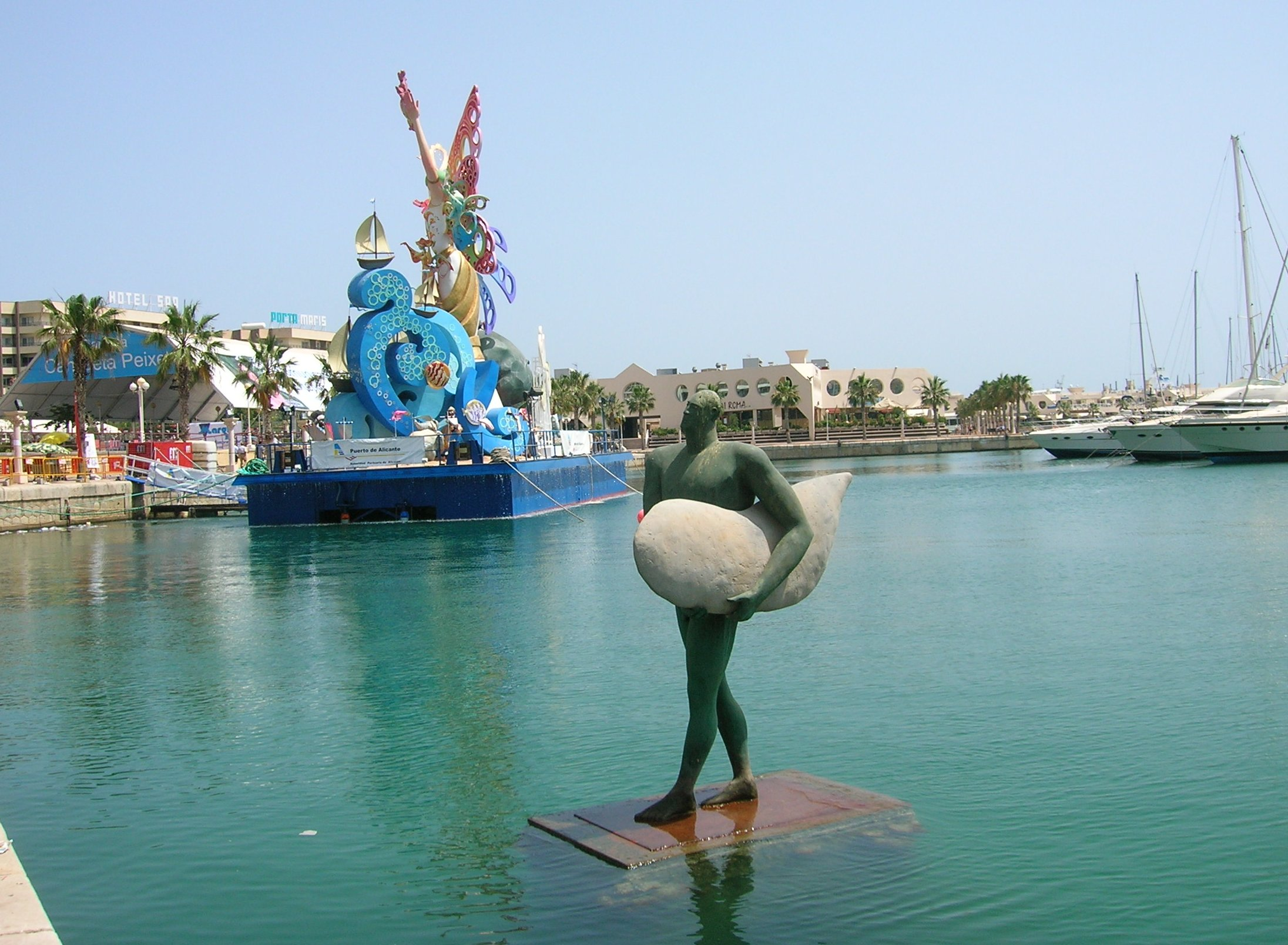 Port of Alacant/Alicante, with a ninot for St John's eve bonfires.